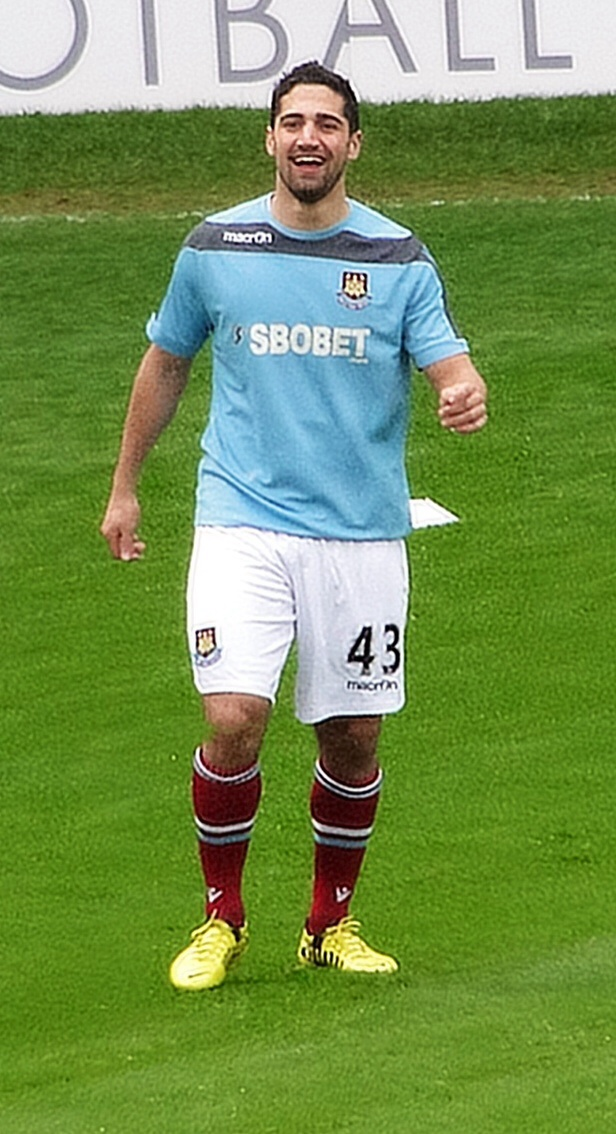 West Ham United player, Sebastian Lletget warming up, 2012